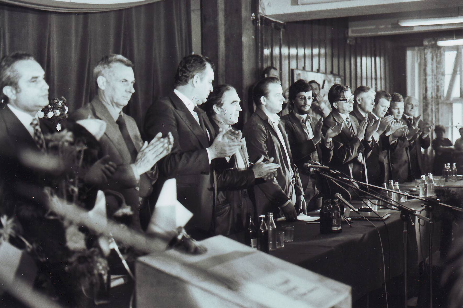 Strike Coordination Committee and Government Commission in Szczecin during the September 1980 crisis in Poland.